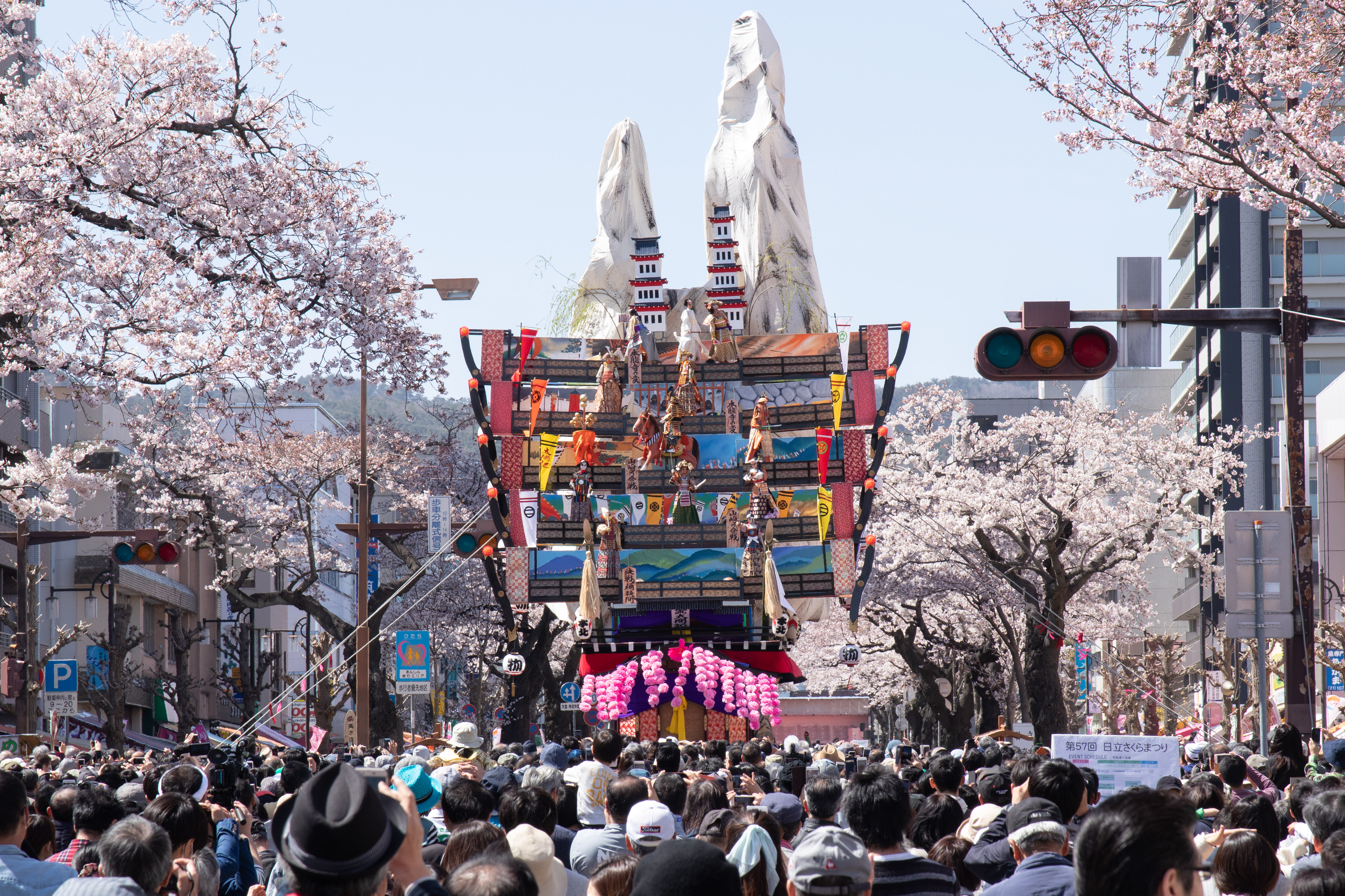 Hitachi Furyumono, Hitachi City, Ibaraki, Japan Canon EOS 80D + Sigma 17-70mm F2.8-4 DC Macro OS HSM